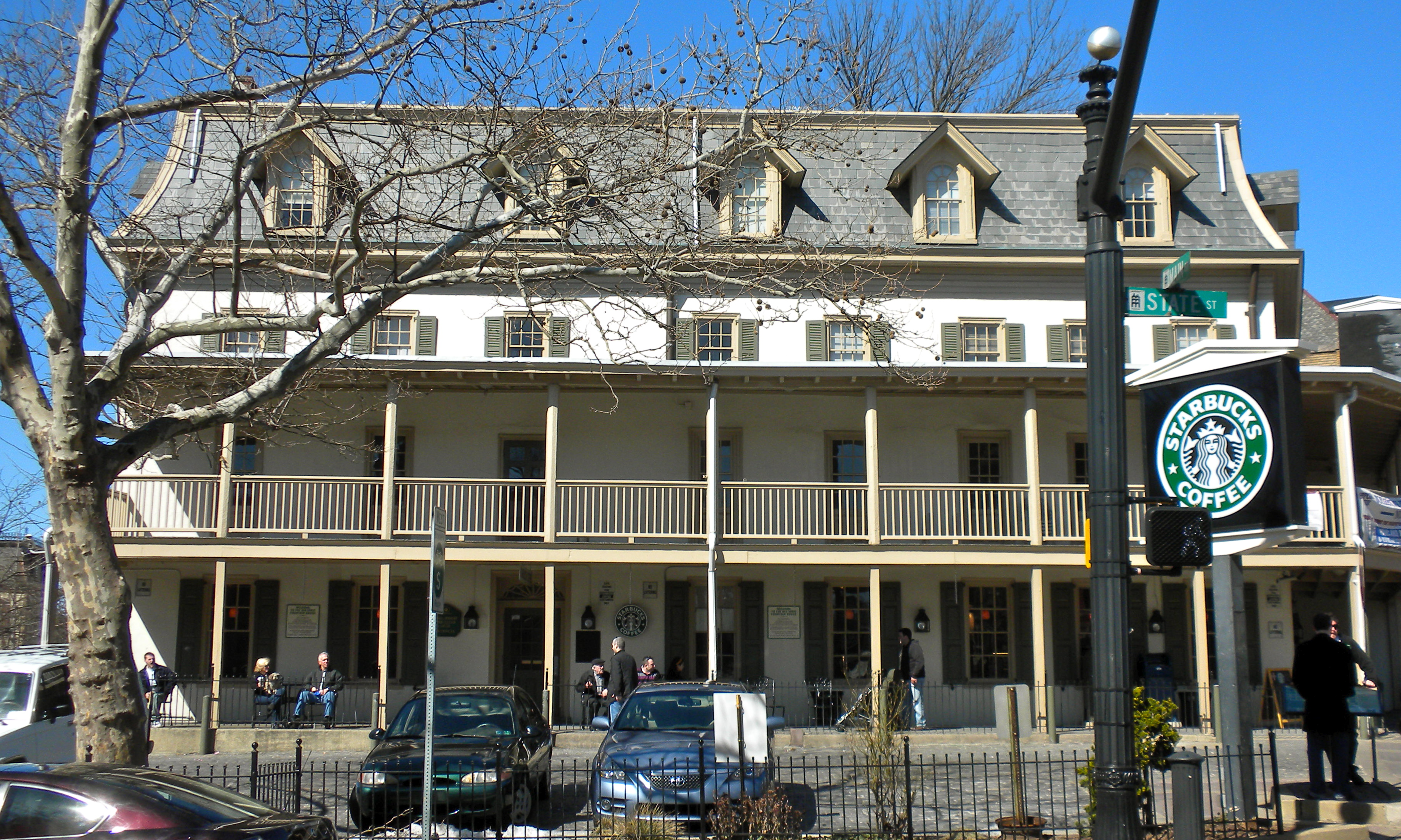 Fountain House on NRHP since March 16, 1972. At State and Main Streets in Doylestown, Bucks County, Pennsylvania